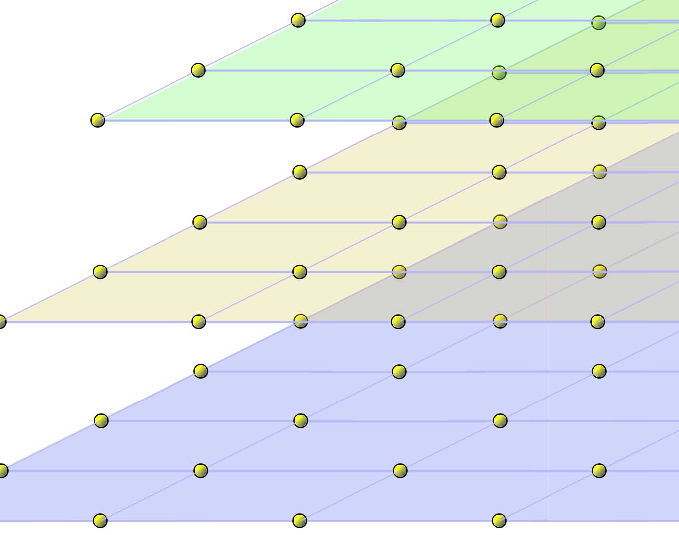 Lattice (group)